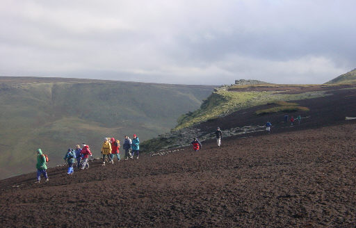 Wimberry Stones. Wimberry Stones from Wimberry Moss, near Greenfield. The stones are known as "Indian's Head" because, when seen on the skyline from the valley below, they resemble the profile of a "red indian chief" when you turn your head to one side. See 441976 In August 1949 a Dakota DC-3 crashed here at Wimberry Stones killing 21 of the 29 passengers & crew on board, including the pilot Capt. Frank Pinkerton, a wartime Lancaster pilot.